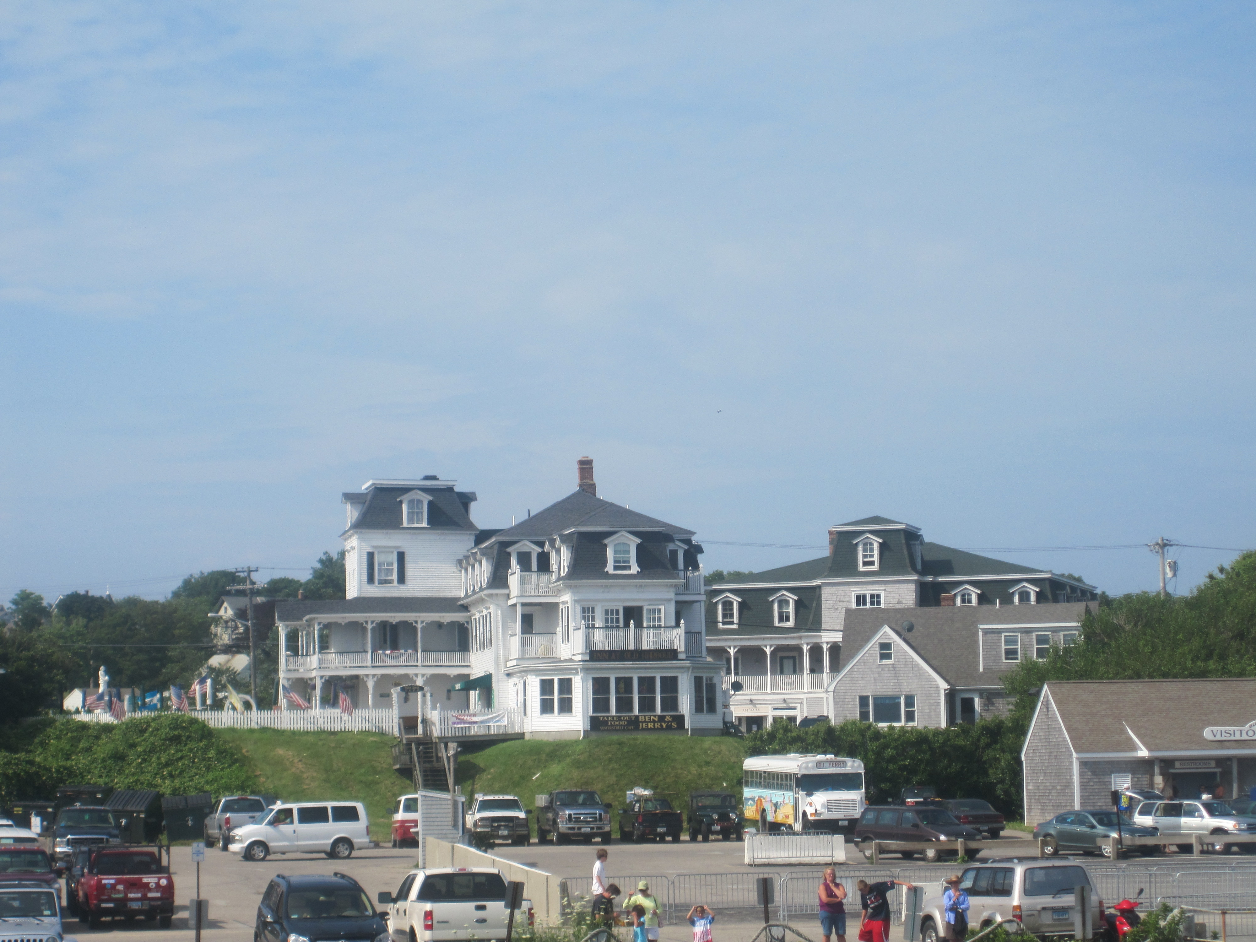 Southside of Block Island — in New Shoreham, Rhode Island.